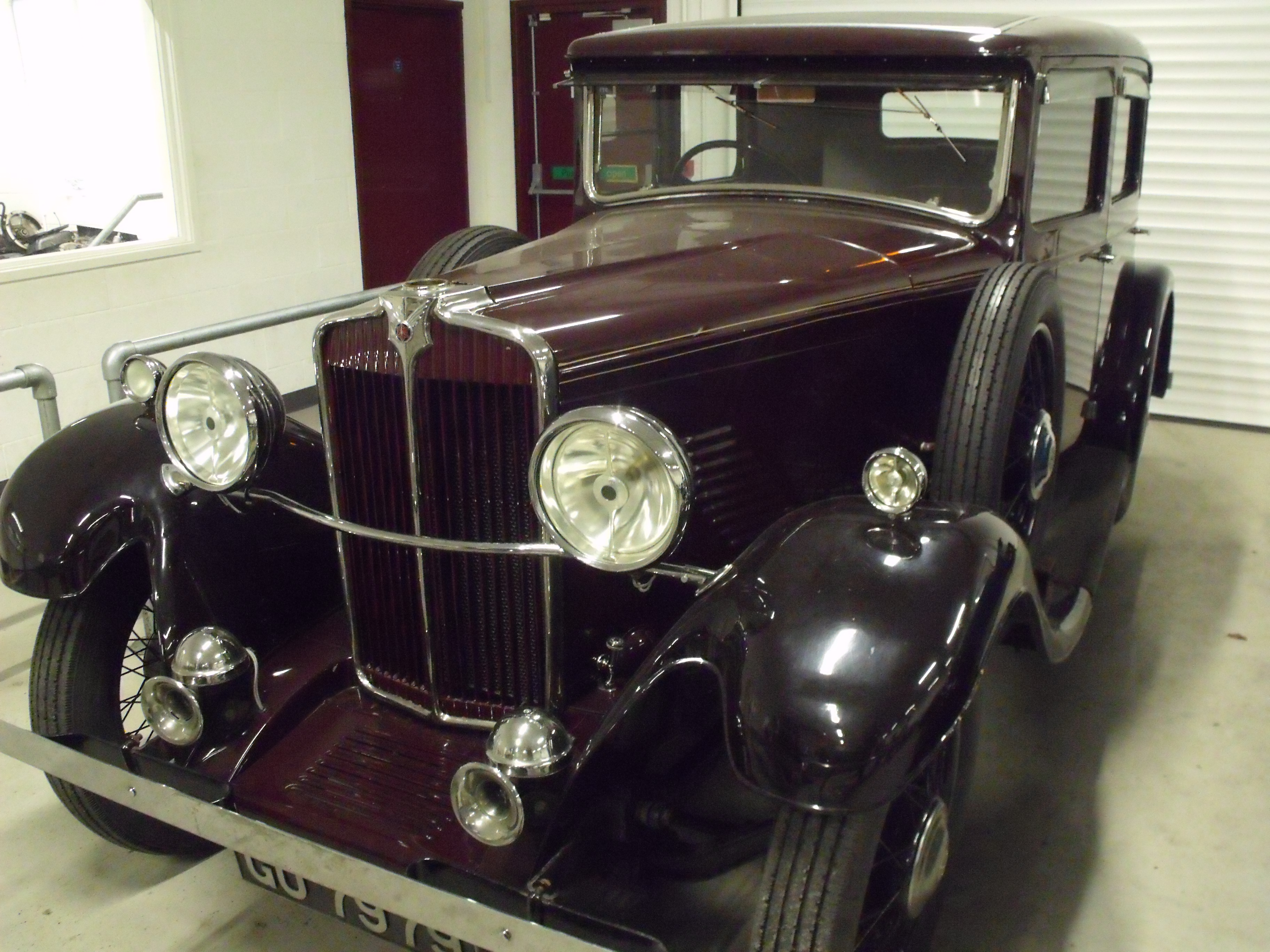 1931 Star Comet 18 saloon 2470 cc This is the Black Country Living Museum in Dudley, West Midlands. The museum was established in 1975, and the first buildings moved here in 1976. Since then a 26 acre site has been developed, with the unique conditions of living and working in the Black Country from the mid 19th century to early 20th century. It is off Tipton Road in Dudley. This is Bradburn & Wedge Ltd - inside the car showroom is a collection of vintage cars. This building has been created to showcase the Museum’s magnificent collection of Black Country manufactured vehicles. Inside, visitors can view cars, motorcycles and commercial vehicles including brands such as Bean, Clyno, Westfield, Sunbeam, Diamond, Guy and AJS. The 1950s appearance of the building is based on the car showrooms of local company, Bradburn and Wedge. The company was founded in 1918, when William Howard Bradburn, the son of a farmer from Wednesfield, joined with Harry Wedge. Wedge left the business about 4 years later, but Bradburn carried on under the same name. His firm became one of the best known car distribution companies in the Midlands.